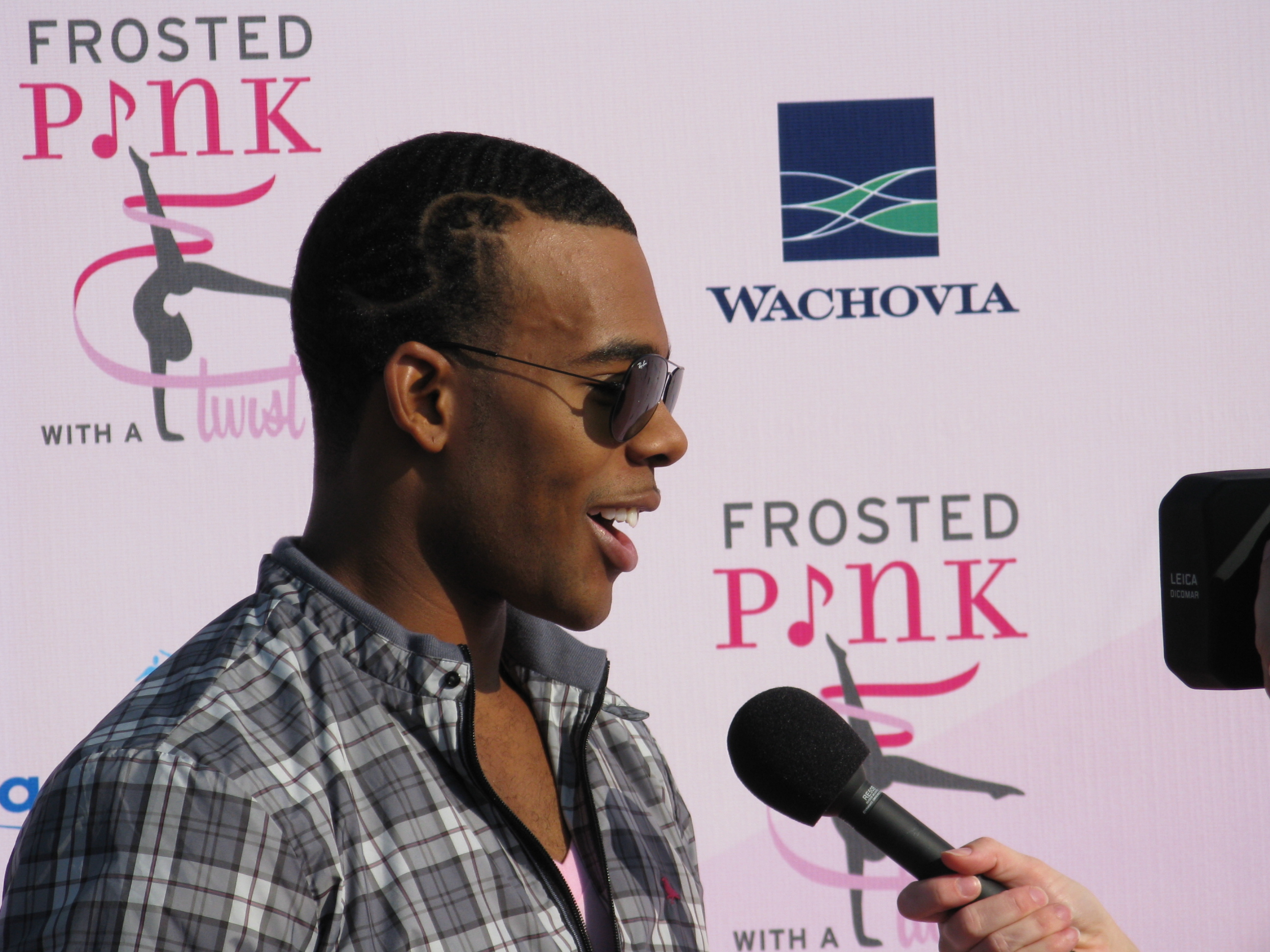 San Diego, California on September 14th, 2008